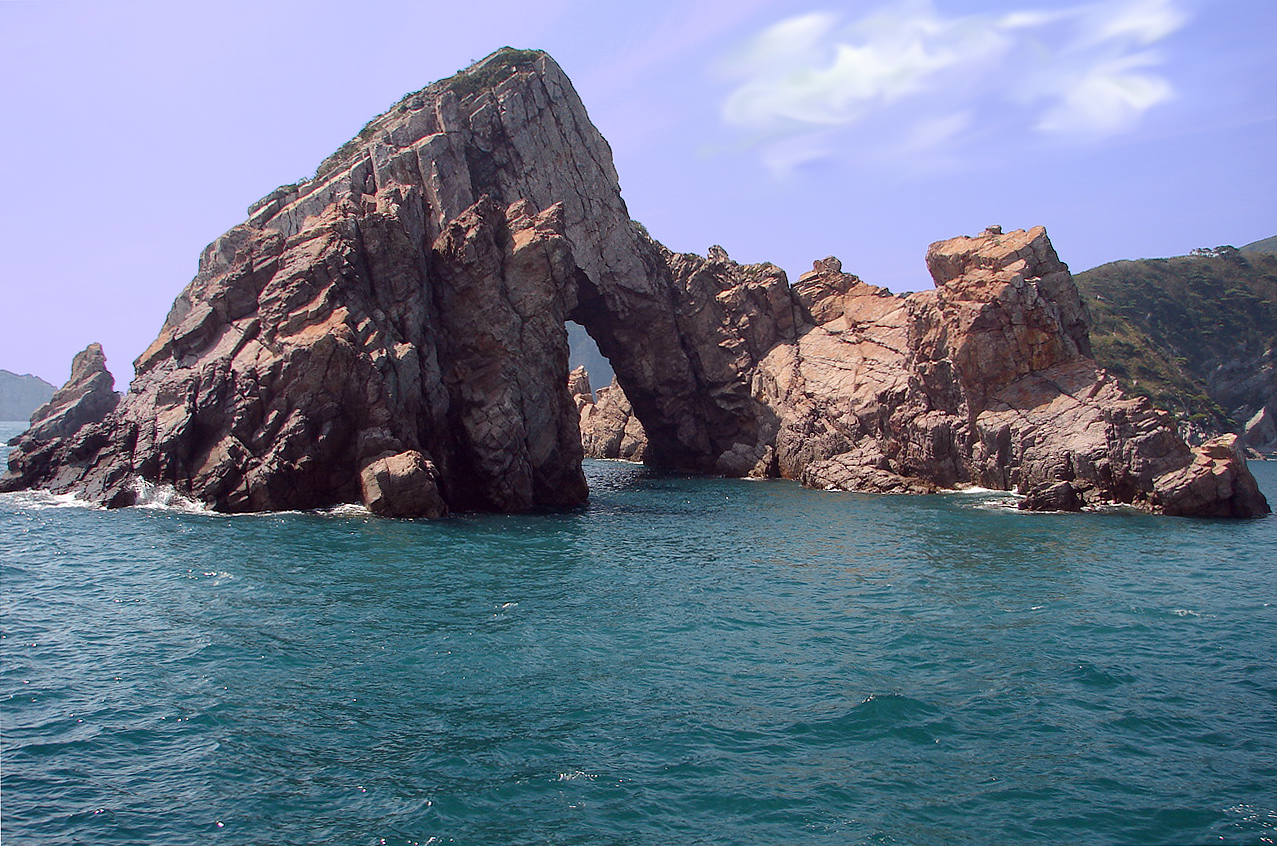 Elephant Rock on Hongdo, an island in the Yellow Sea located off 71 miles southwest the port of Mokpo covering an area of 2.5 square miles.